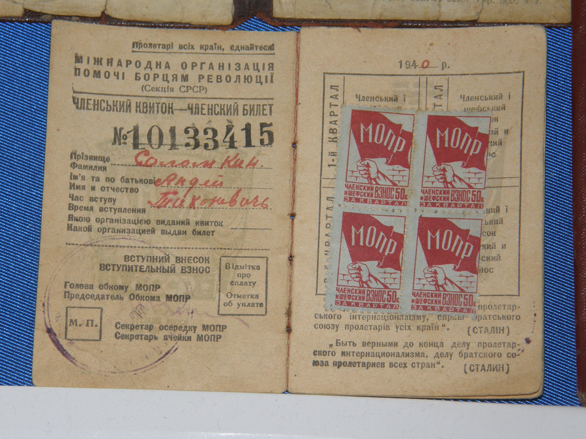 Museum of History of Donetsk metallurgical plant